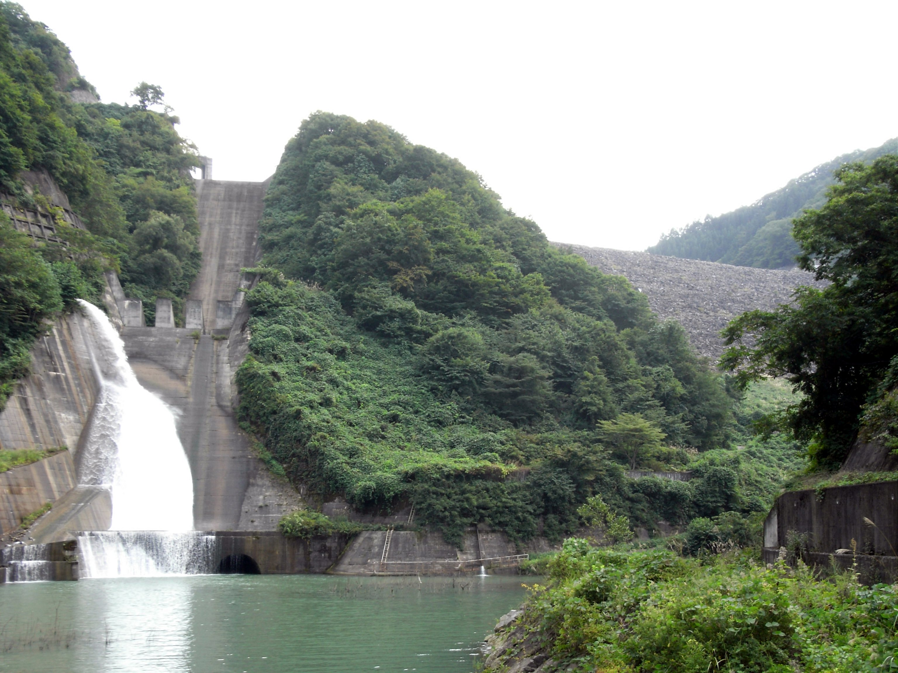 Shimokotori Dam(Kotori river/Gifu Pref./Japan)